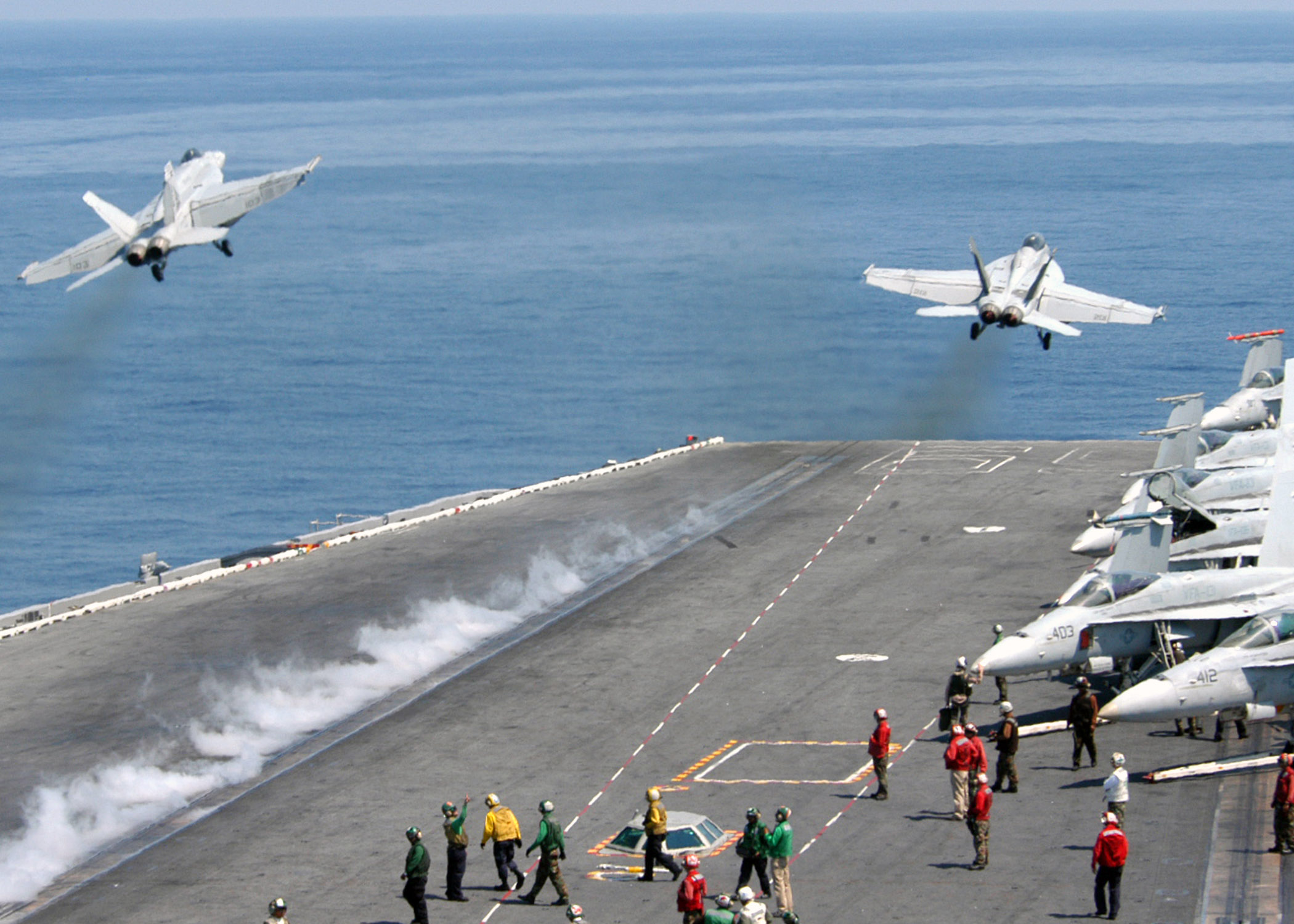 ATLANTIC OCEAN (August 2, 2007) - An F/A-18E Super Hornet assigned to the “Pukin Dogs" of Strike Fighter Squadron (VFA) 143 and a F/A-18C Hornet assigned to the "Wildcats" of Strike Fighter Squadron (VFA) 131 launch off the flight deck of the Nimitz-class aircraft carrier USS Dwight D. Eisenhower (CVN 69) during flight operations. Eisenhower and embarked Carrier Air Wing (CVW) 7 are underway in the Atlantic Ocean. U.S. Navy photo by Mass Communication Specialist Seaman Rafael Figueroa Medina (RELEASED)